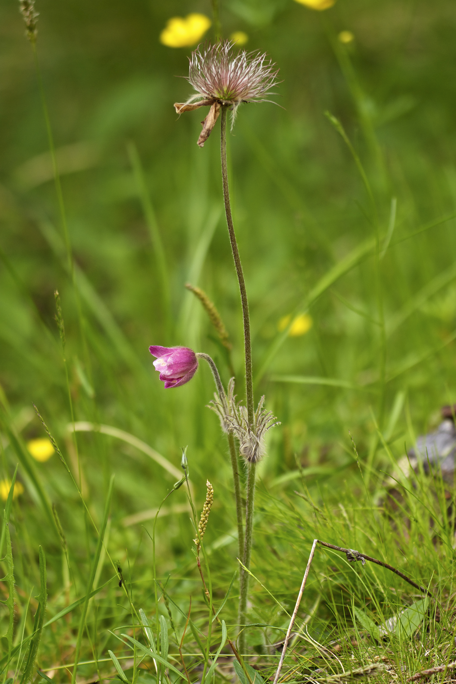 Spring Pasqueflower (Pulsatilla vernalis), Grimsdalen, Rondane National Park, Norway